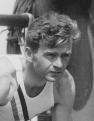 Photo of US Olympic team sprinters (from left) Jesse Owens, Ralph Metcalfe and Frank Wykoff on the deck of the S.S. Manhattan before they sailed for Germany to compete in the 1936 Olympics. They're shown doing a light warm-up on the deck.